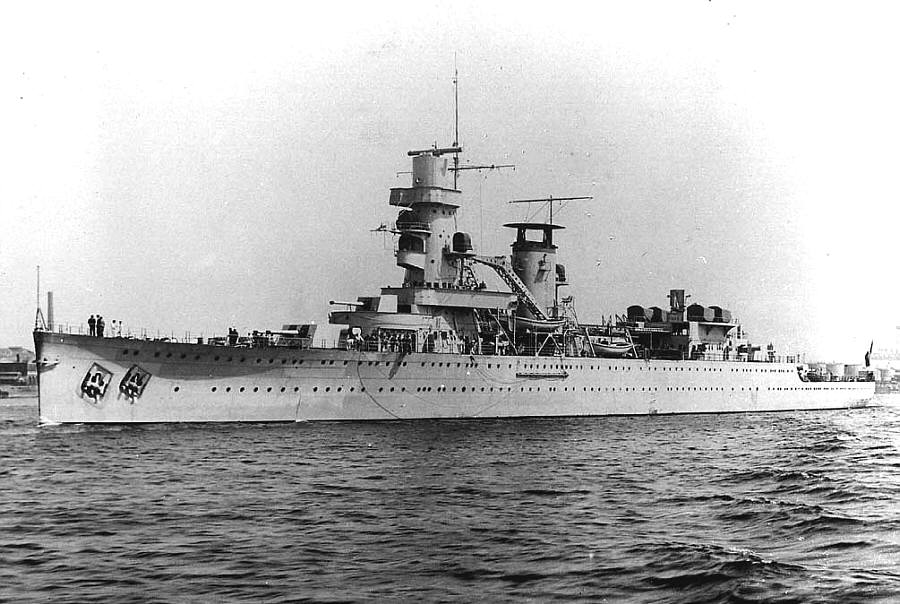 Nederlands light cruiser De Ruyter during trials. Note the original funnel cap which was shortly after replaced